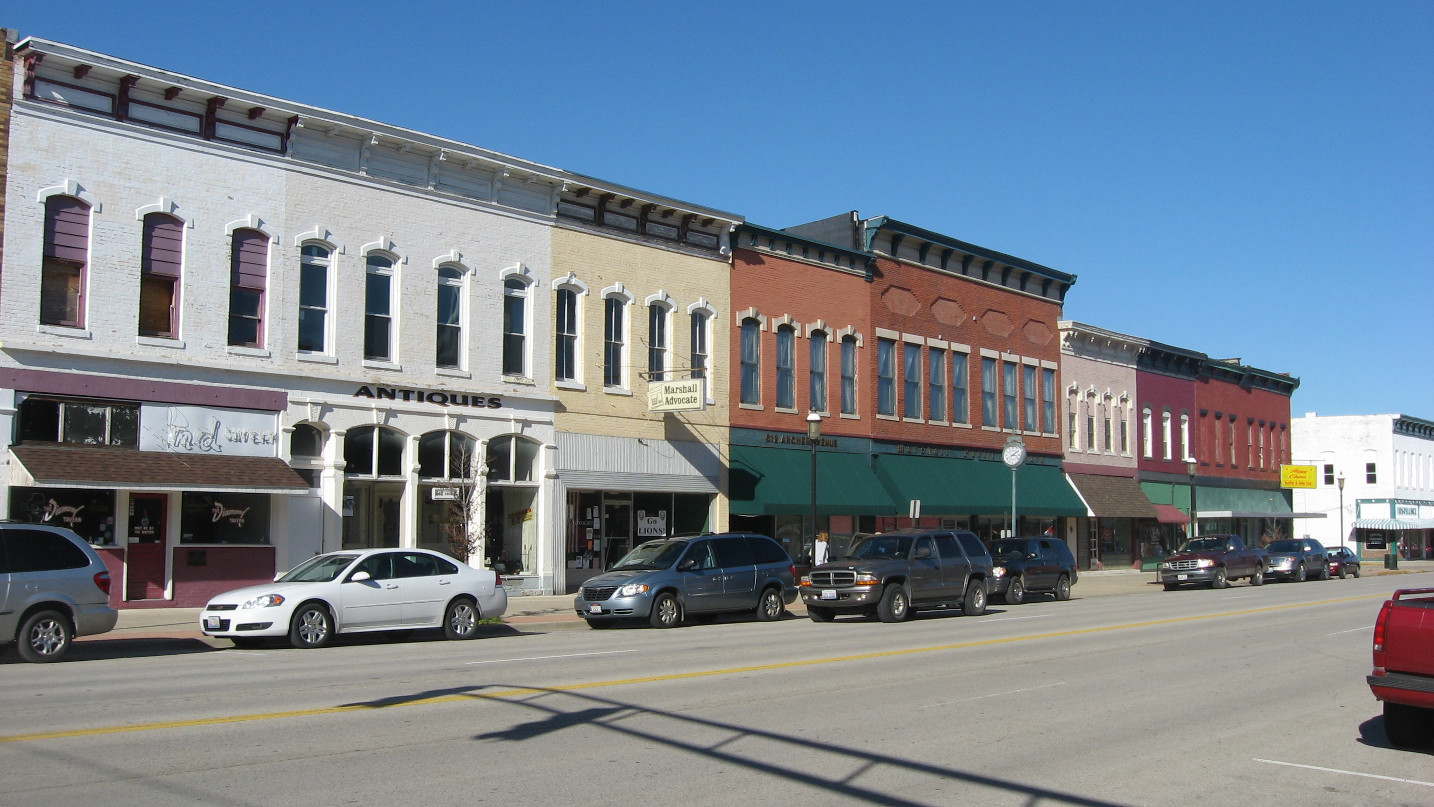 Buildings on the northern side of the 600 block of Archer Avenue in Marshall, Illinois, United States.